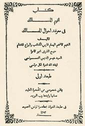 Kheireddine_cover_of_his_book